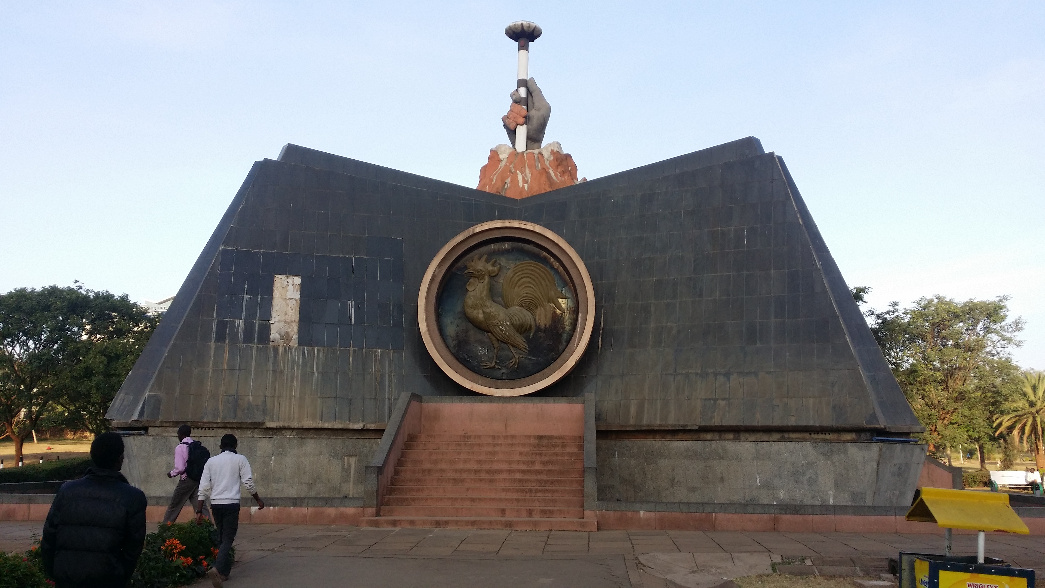 The Jomo Kenyatta memorial in Central Park, Nairobi, was elected in this park to show that Kenyans appreciate the freedom fighters who made Kenya a nation of its own. It shows that our citizens in Kenya are patriots and could protect their land any time. It is also a good way to show honor of our past leaders in Kenya. This monument on Central Park grounds in Nairobi greets you as you enter the park from Uhuru Highway. This is an image of music and dance from Kenya